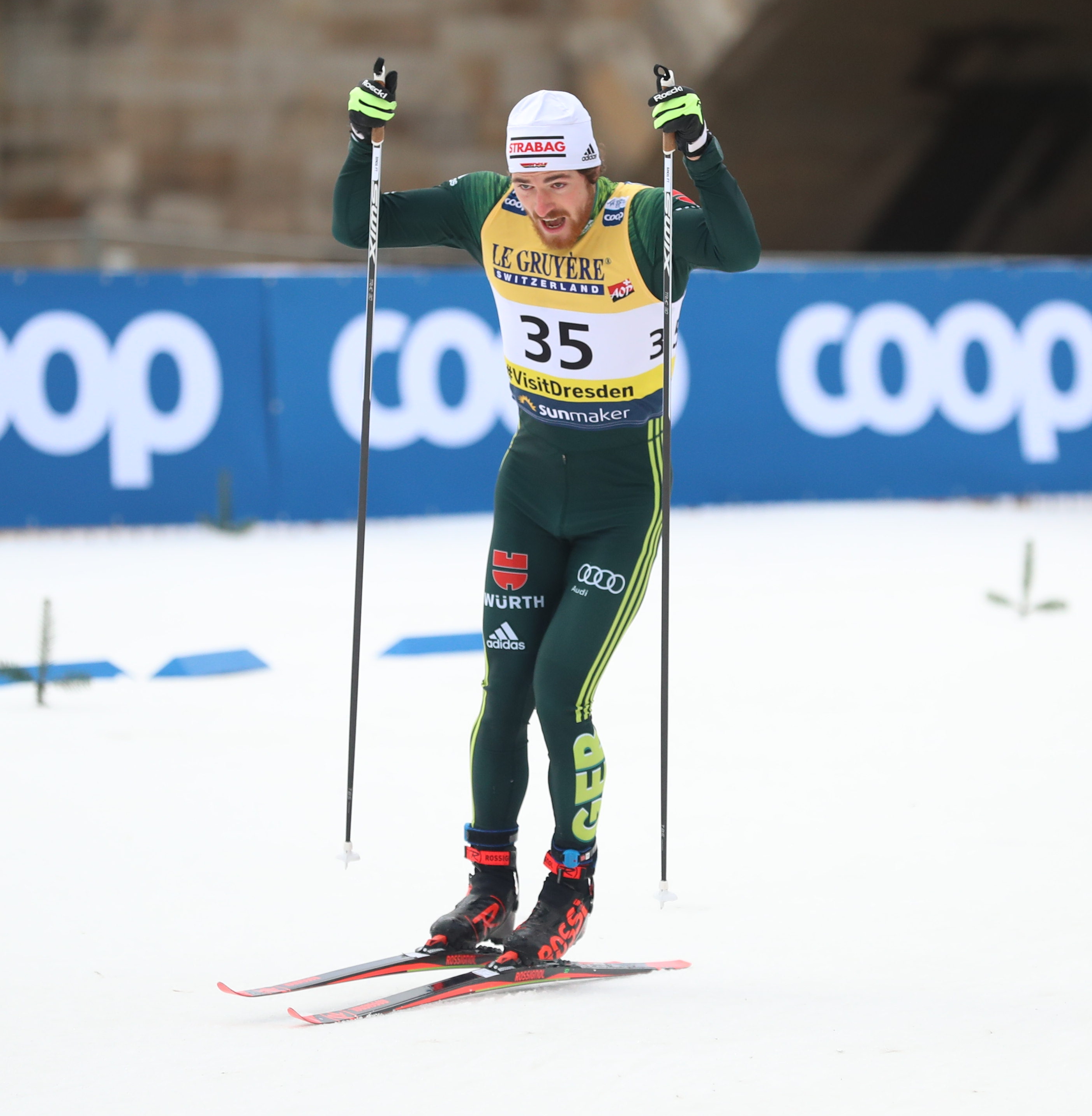 Men's Qualification at the FIS Cross-Country World Cup Dresden 2019 (1.6 km Free Sprint)